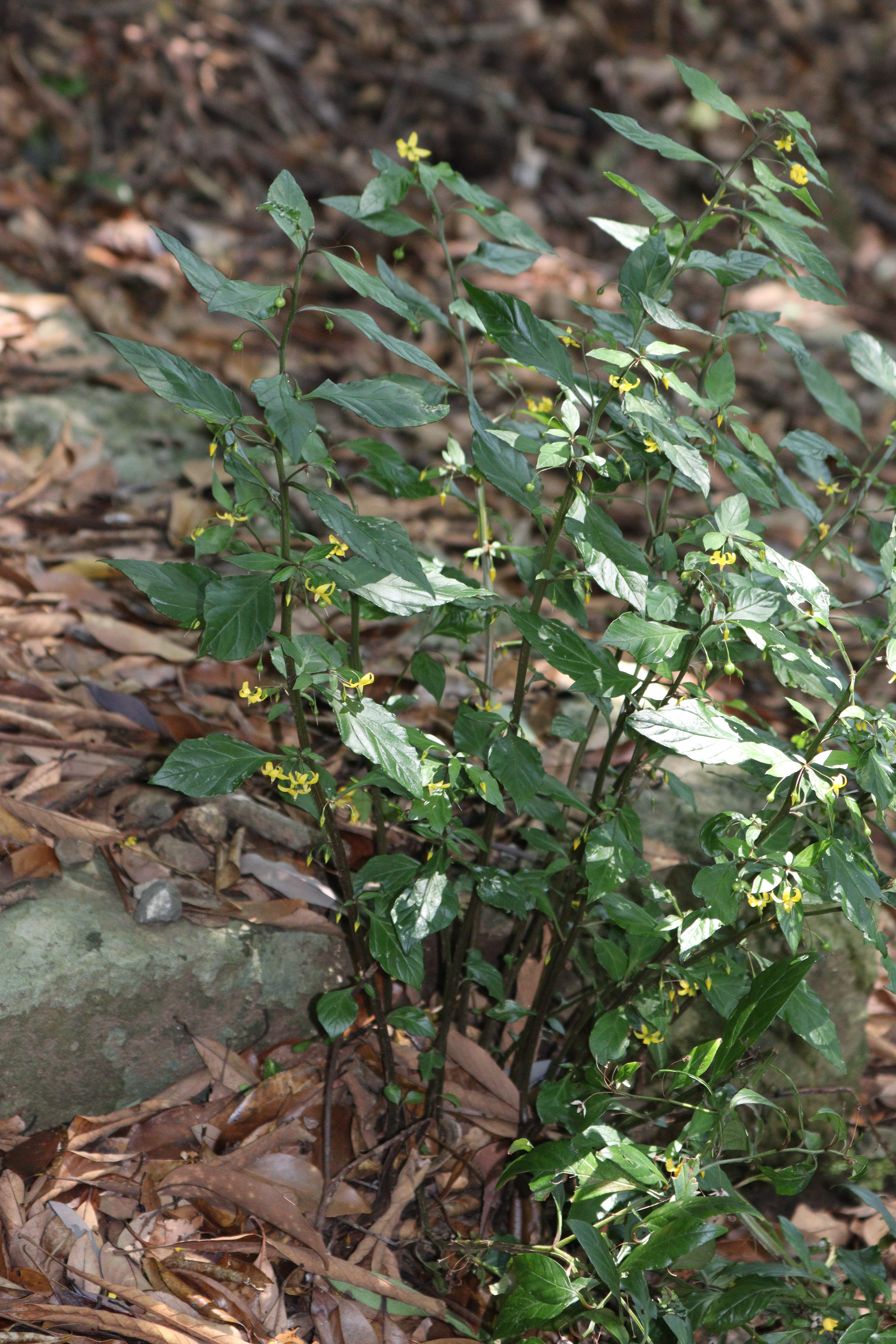 Lysimachia sikokiana in Kumano, Mie Prefecture, Japan.